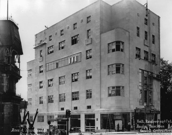 The Montreal Holt Renfrew department store in art deco style, designed by Ross and Macdonald. The adress is 1300 Sherbrooke Street West, Montreal, Quebec, Canada.